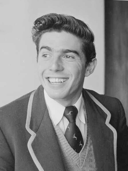 Wilfred Rosenberg, centre, Springbok rugby team during tour of New Zealand